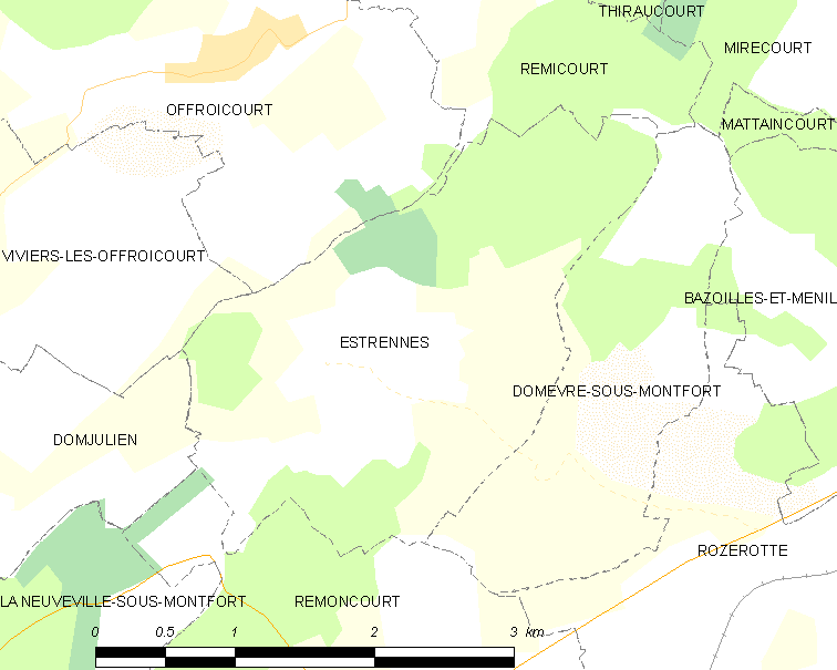 Map of French municipality Estrennes